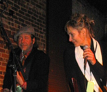 Billy Hector and Suzan Lastovica performing together at Big Danny's wake at Red Fusion, February 11, 2007.